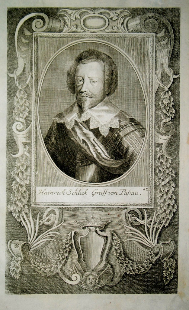 Heinrich Graf von Schlik (zu Bassano und Weißkirchen, circa 1580 bis 1650): Kupferstich, Kaiserlicher Feldmarschall, Hofkriegsratspräsident.